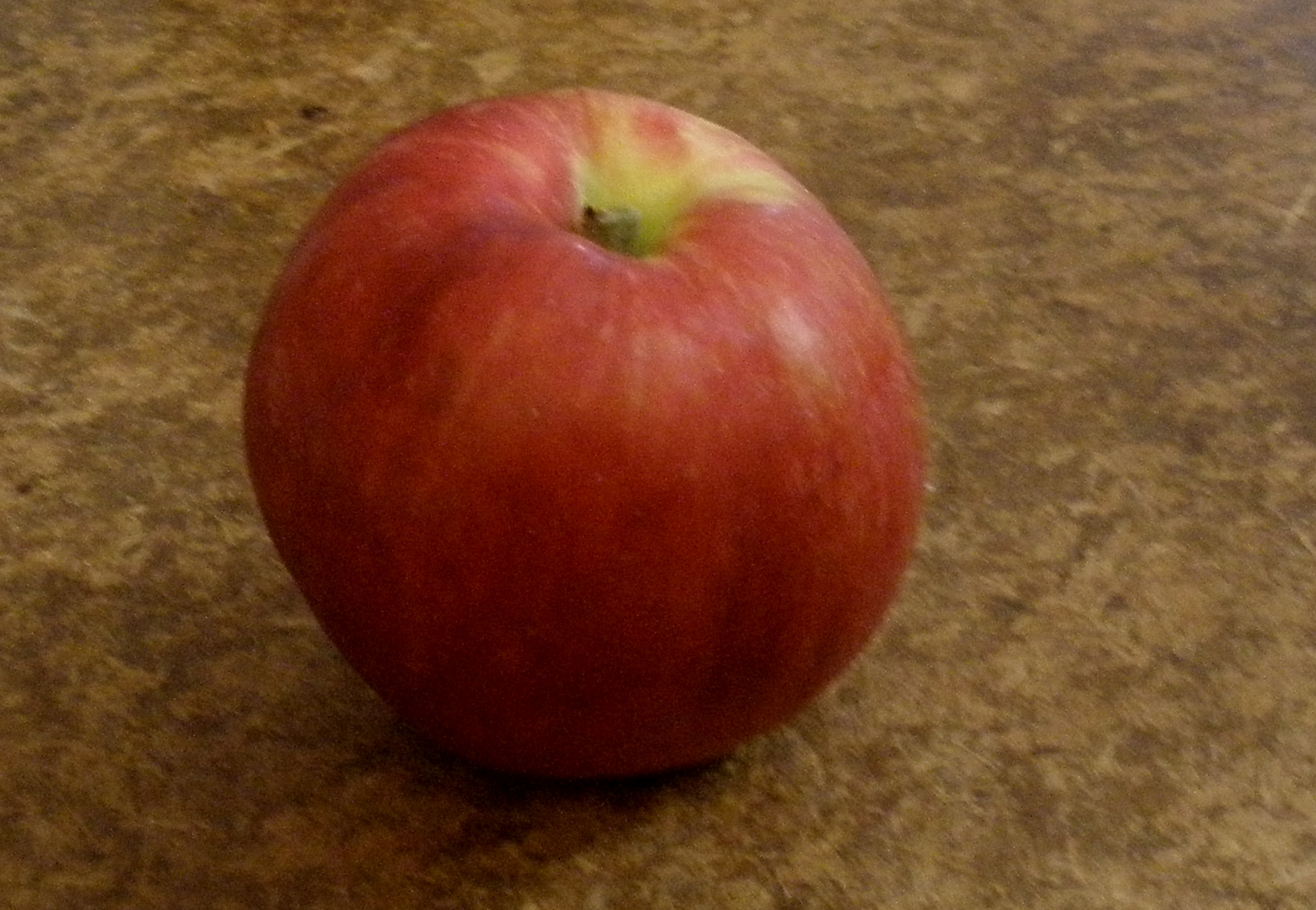 An Esopus Spitzenburg apple, sitting on a table. This is an antique apple; I bought this one at a local farmer's market.